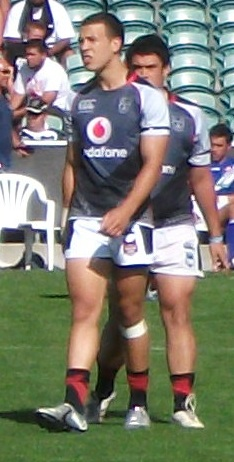 Carlos Tuimavave playing for the Junior Warriors v Auckland Vulcans at North Harbour Stadium on 26 February 2011.